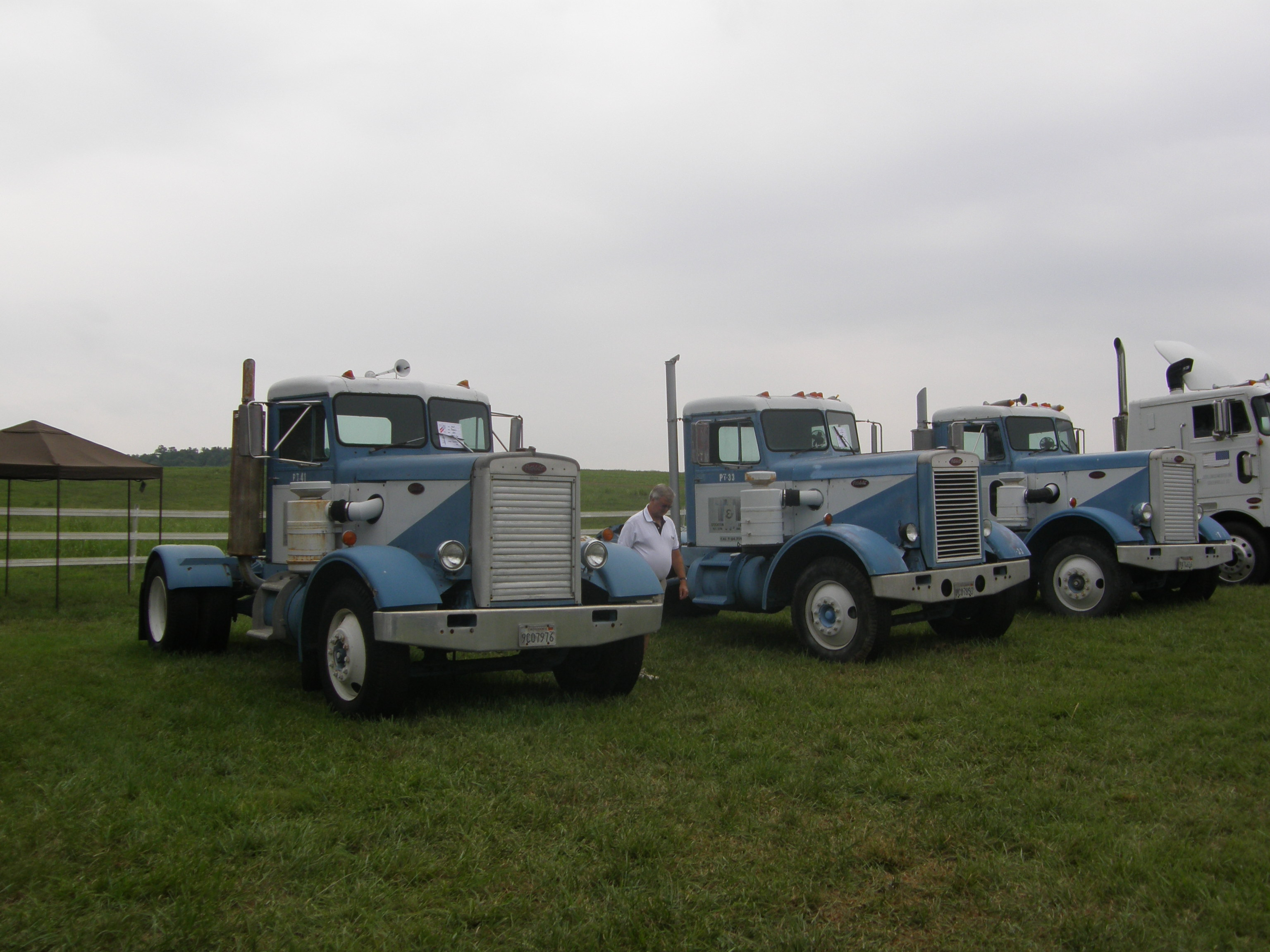 Lineup of three 1960's Peterbilt 281's, at the 2010 Virginia-Carolina Truck Show.